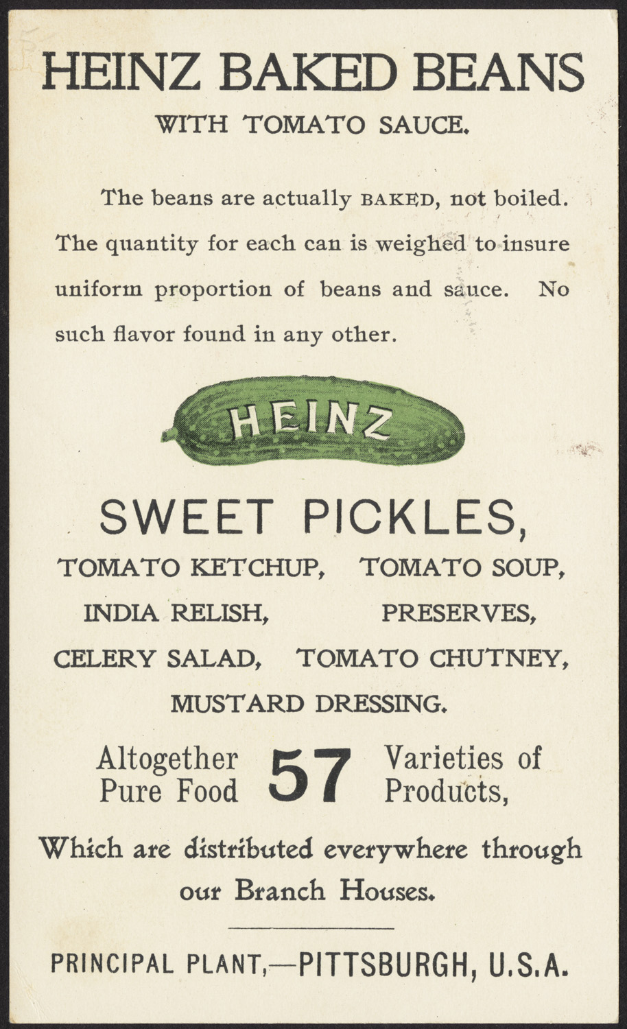 File name: 10_03_000110b Binder label: Food Title: Heinz Baked Beans with Tomato Sauce [back] Date issued: 1870 - 1900 (approximate) Physical description: 1 print : chromolithograph ; 13 x 8 cm. Genre: Advertising cards Subject: Boys; Canned foods Notes: Title from item. Statement of responsibility: Heinz Collection: 19th Century American Trade Cards Location: Boston Public Library, Print Department Rights: No known restrictions.